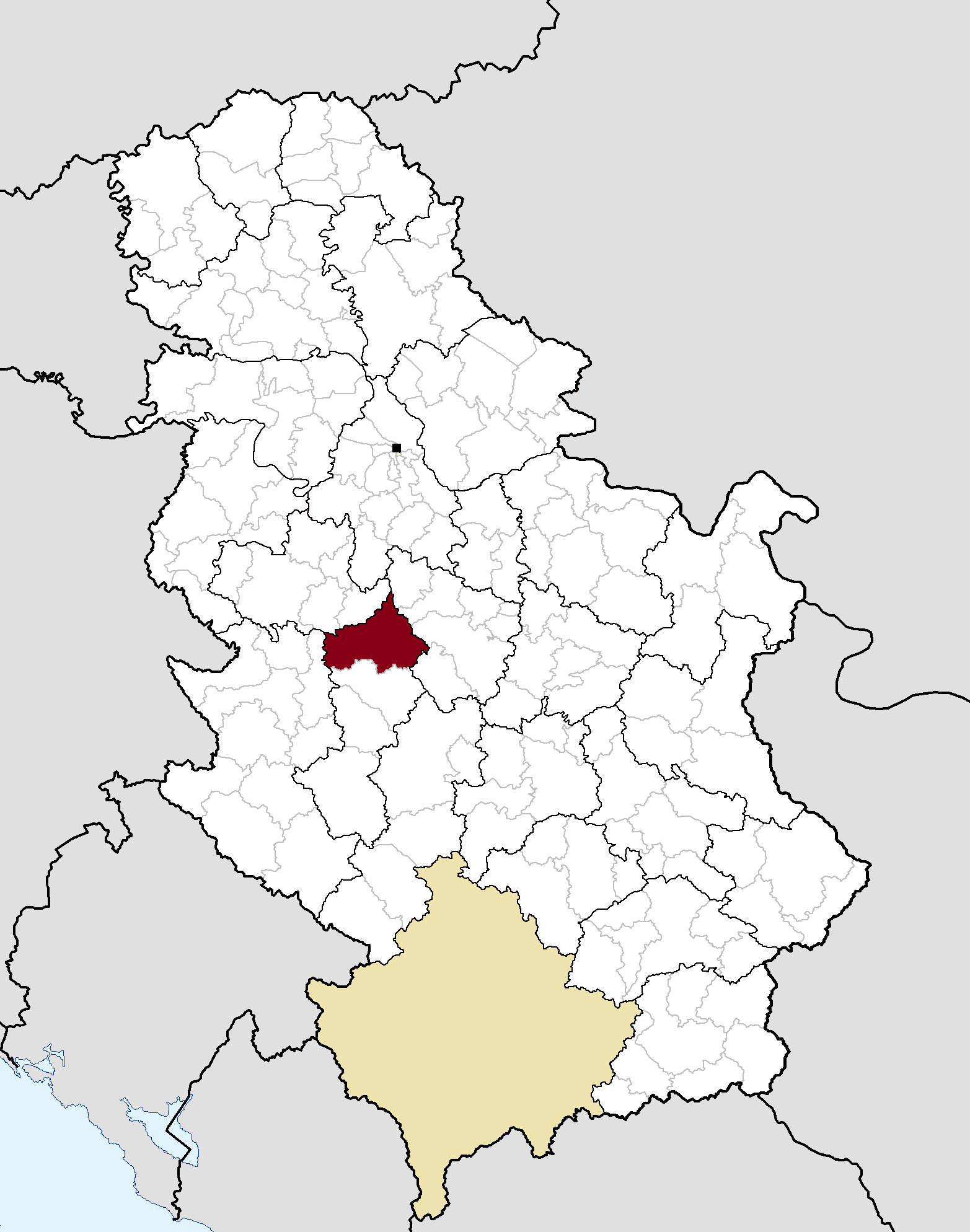 Municipal location in Serbia